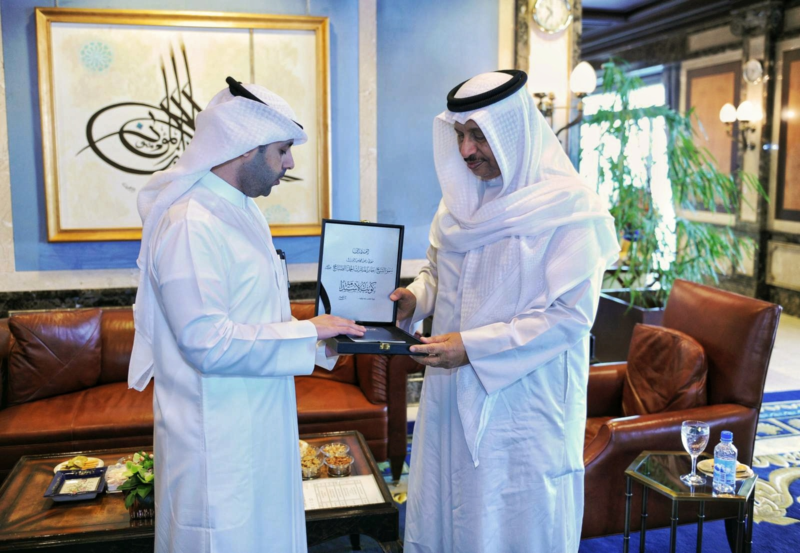 Al-Salloum presenting Kuwait of the Sustainability to H.H. the Prime Minister, Sheikh Jabir Al-Mubarak Al-Sabah.